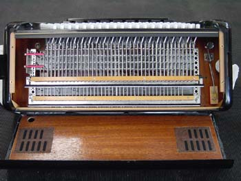 The inside part of an accordion, showing the machinery of the bass.